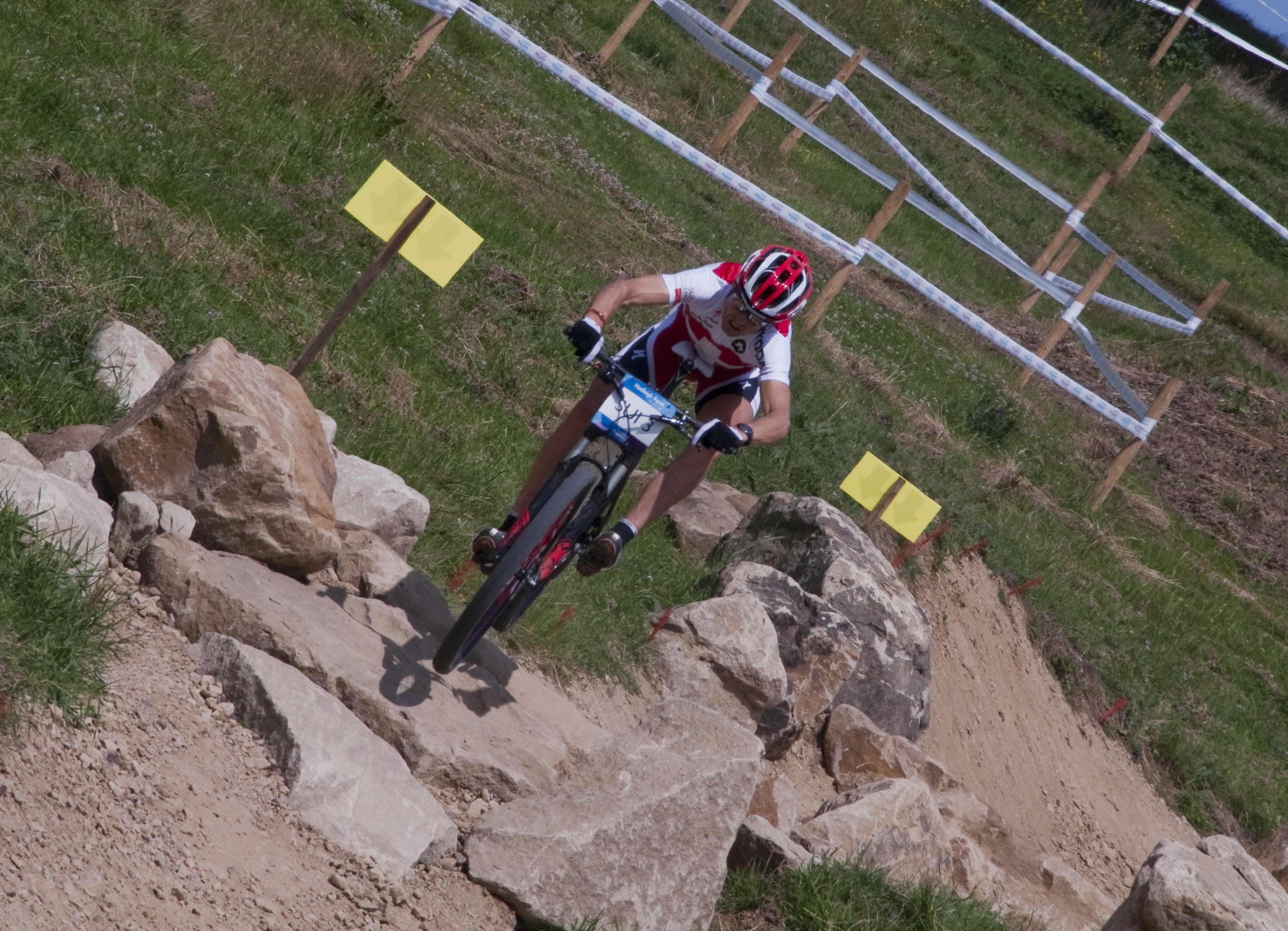 On the 2012 Olympic Mountain Bike course